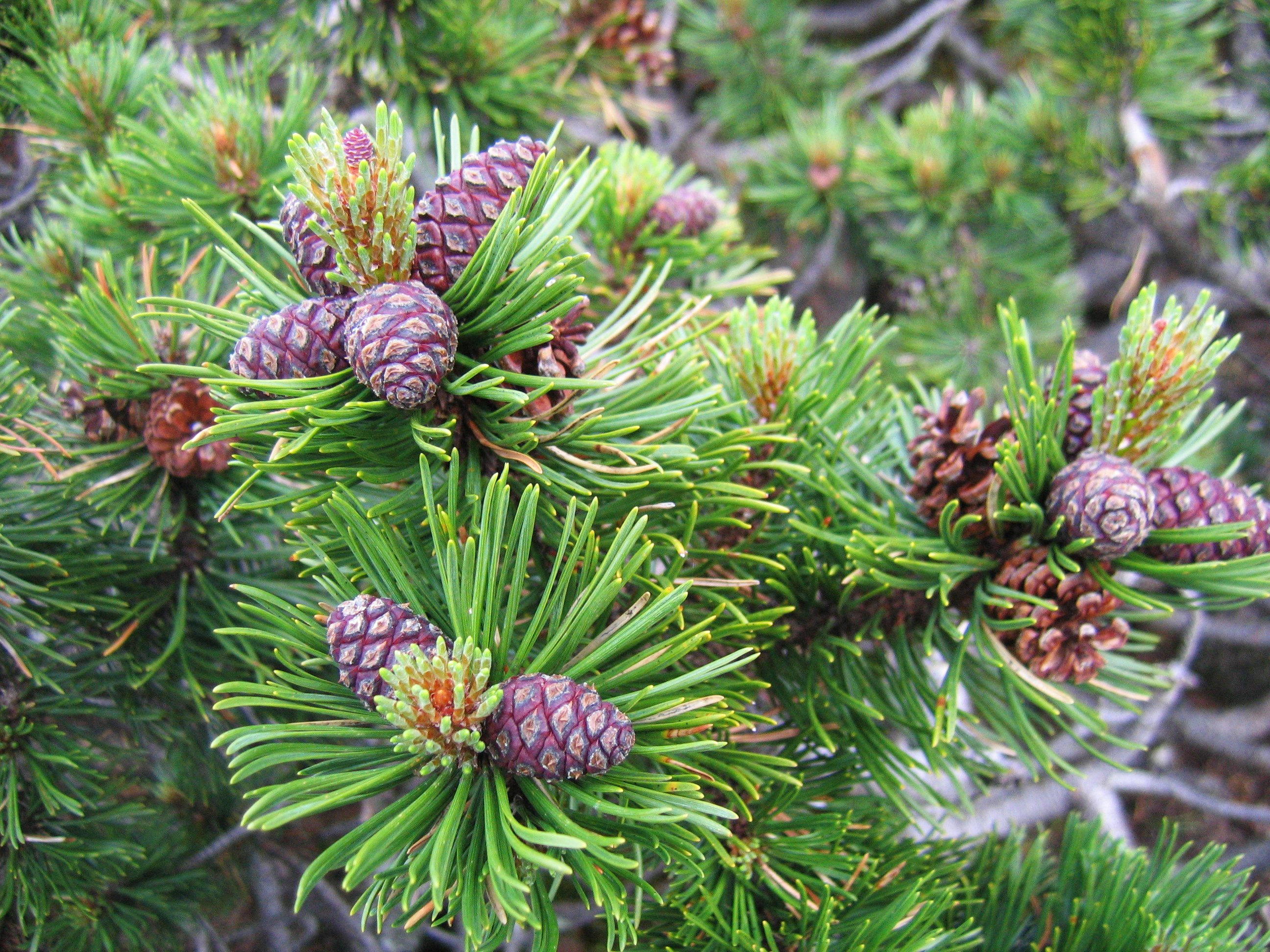 Mountain Pine type subspecies (Pinus mugp subsp. mugo), seed cones, natural habitat in Tatra Mountains, Poland.